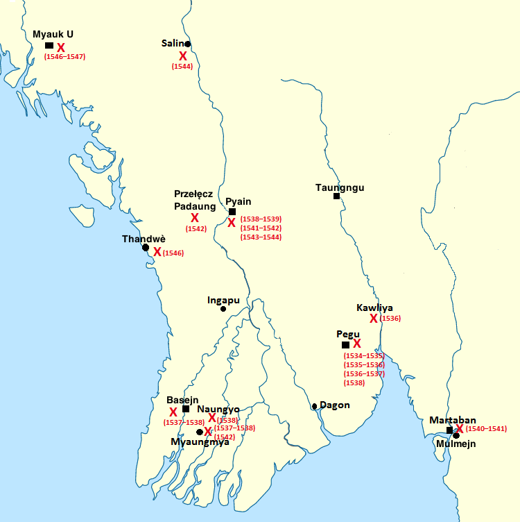 Toungoo military campaigns (1534–1547). Polish version.